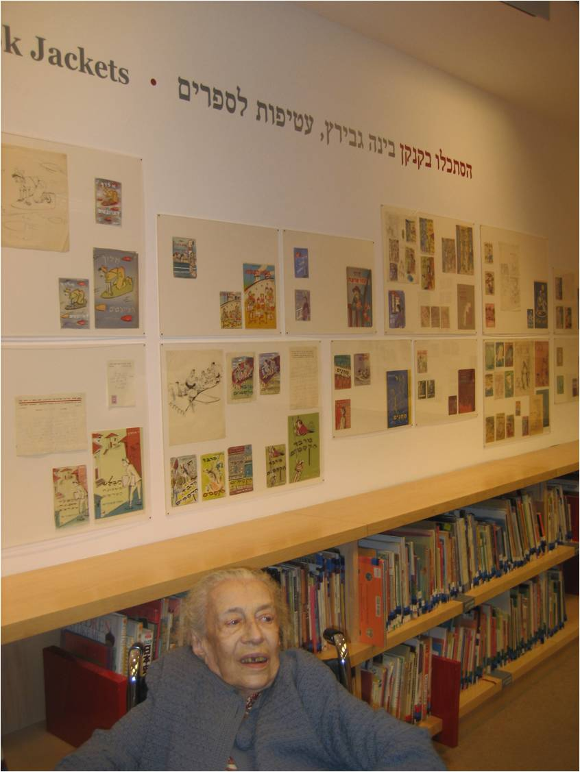 Bina Gvirtz visiting the Youth Wing for Art Education at the Israel Museum, Jerusalem, in 2007.